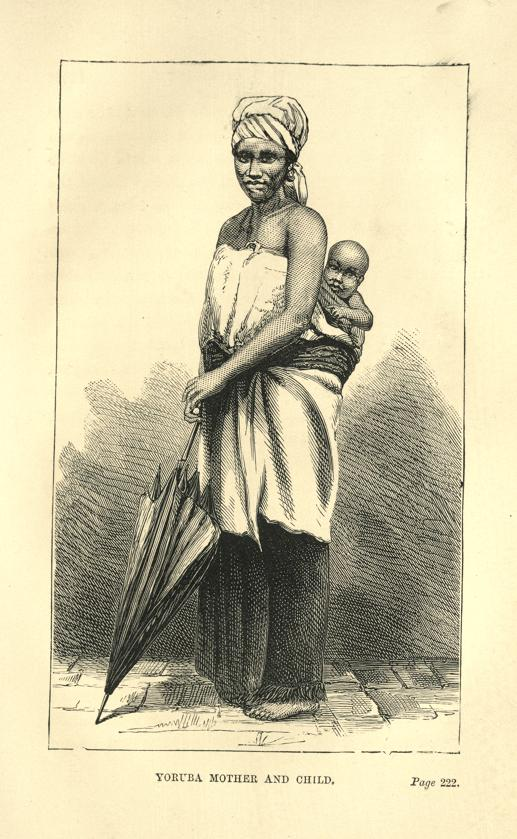 Yoruba Mother and Child - Seventeen years in the Yoruba country. Memorials of Anna Hinderer - Illustration - Published 1877